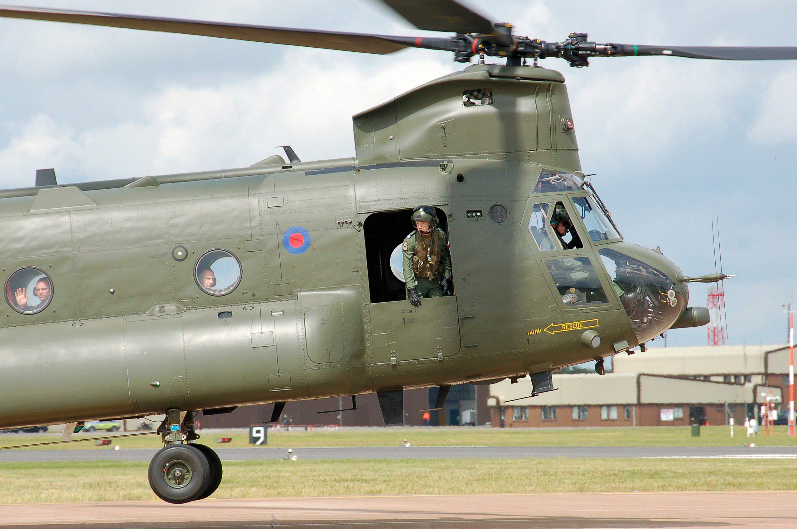 RAF CH-47 Chinook HC2 (code ZA707) a few feet off the ground on its departure from the 2009 Royal International Air Tattoo, Fairford, Gloucestershire, England.